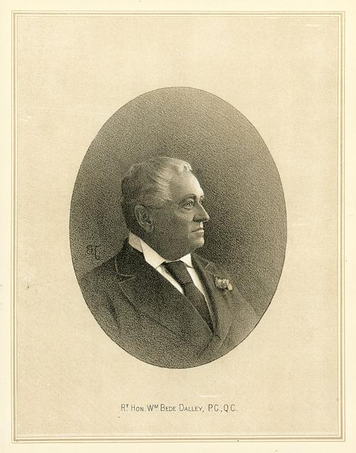 "Rt. Hon. William Bede Dalley, P.C., Q.C." chromolithographic print published in The Aldine Centennial History of New South Wales, Sydney, 1888.